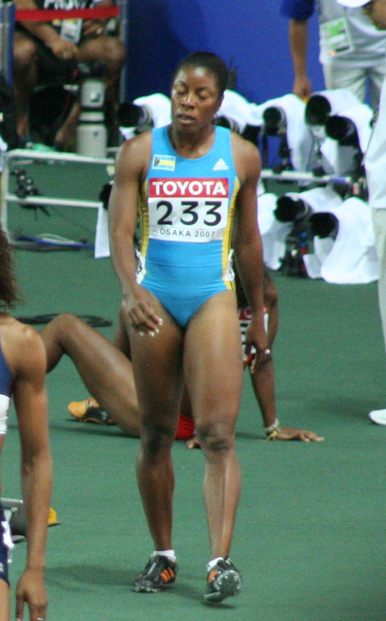 World Athletics Championships 2007 in Osaka - 200 metres runner Debbie Ferguson-McKenzie (Bahamas) after the semifinal